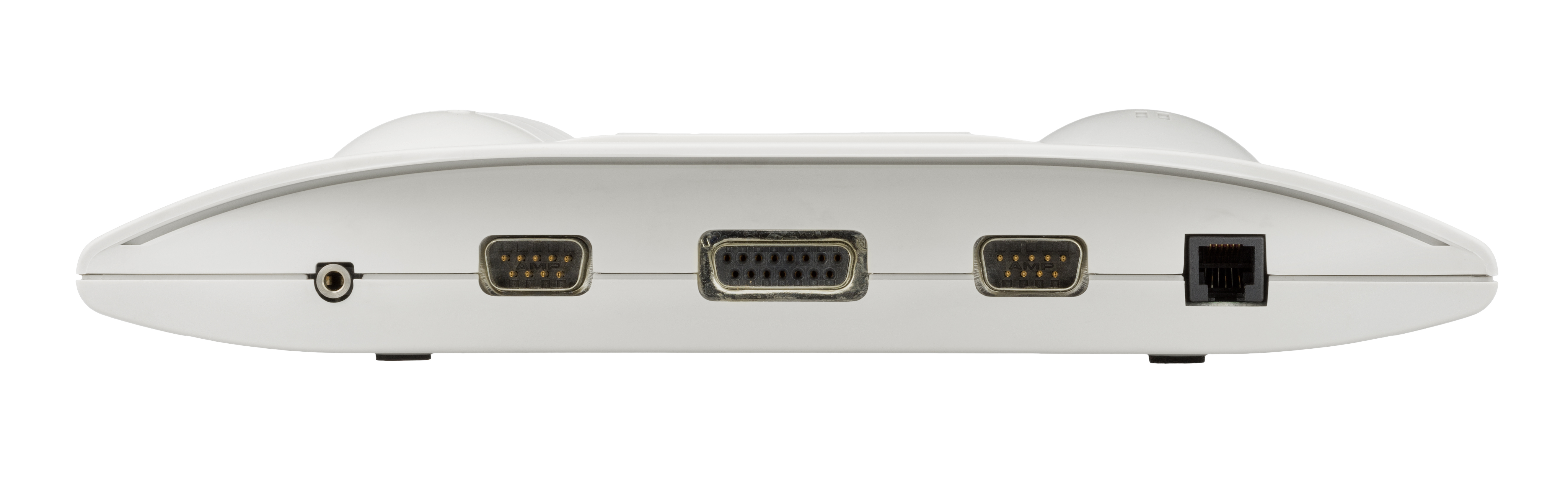 The front of the Amstrad GX4000, a video game console released by Amstrad in 1990. This Europe-exclusive console was a repackaging of Amstrad's line of CPC Plus computers, offering direct conversions of CPC Plus titles. It was only on the market for a short while before being discontinued.